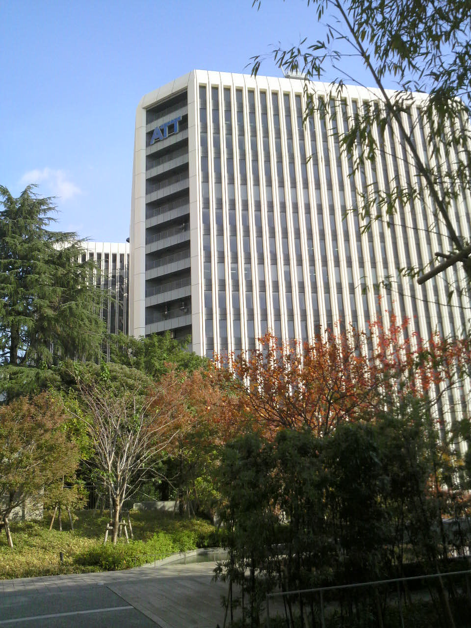 AT&T AKASAKA TWIN Tower